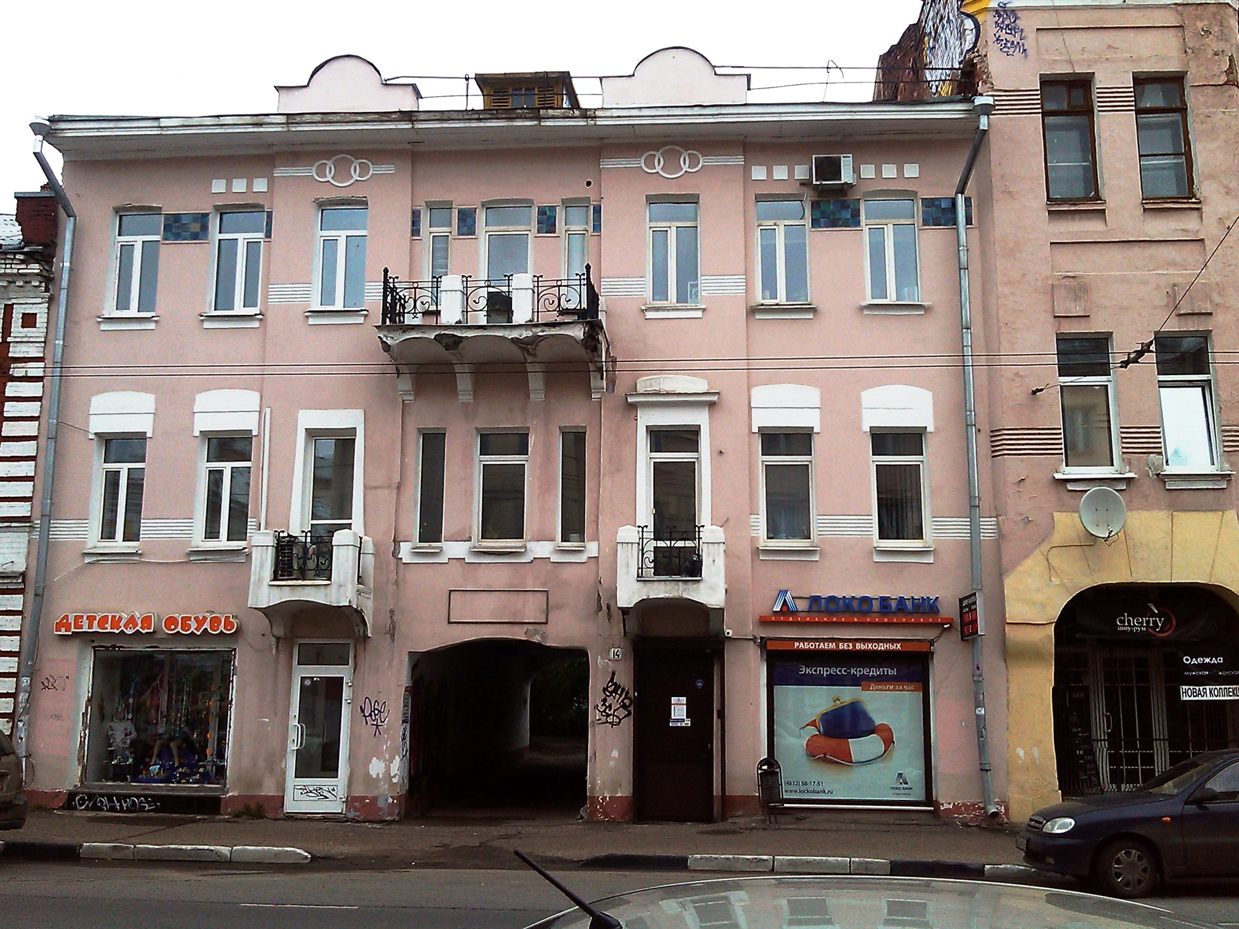 The former house of Gideon. Yaroslavl